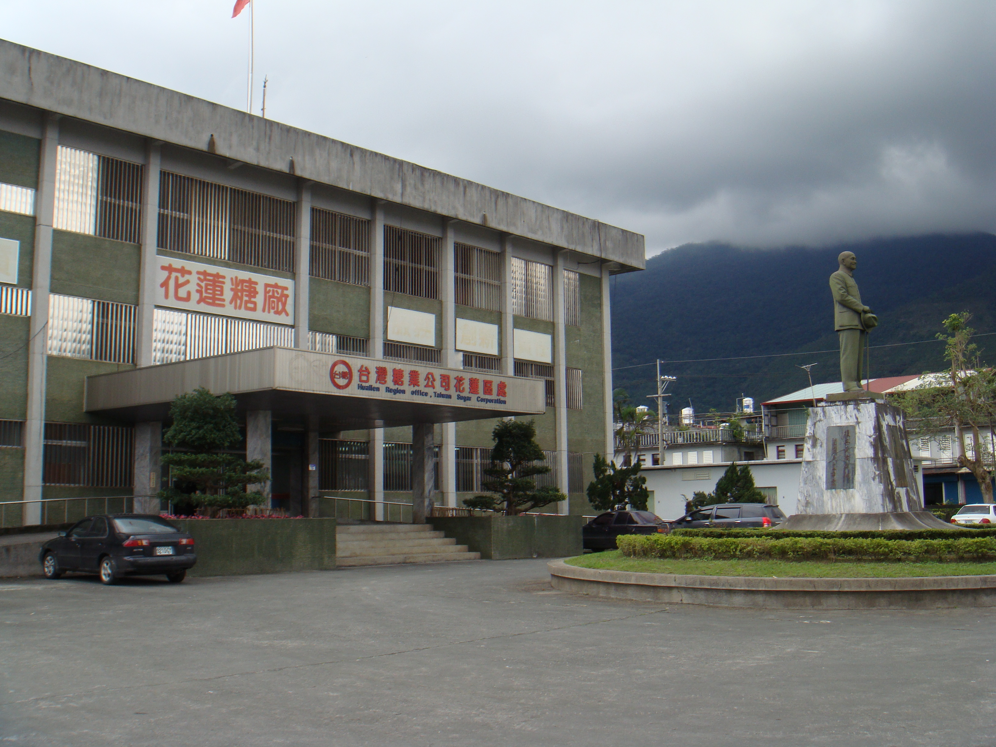 The Hualien Sugar Factory is often called the "Guangfu Sugar Factory"中文（中国大陆）: 花莲糖厂常被称为「光复糖厂」。